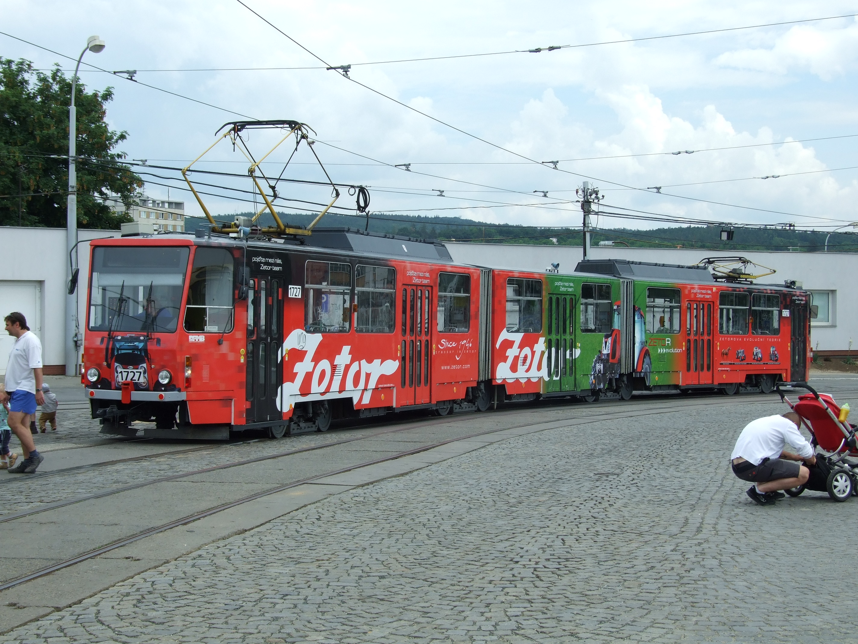 Ad colors on KT8D5 tram in Brno Medlánky depothelp